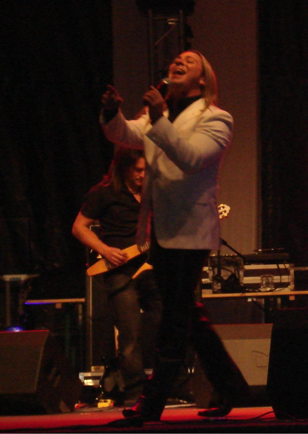 Rui Bandeira singing live at Pontault-Combault, France. Original photo by Biling